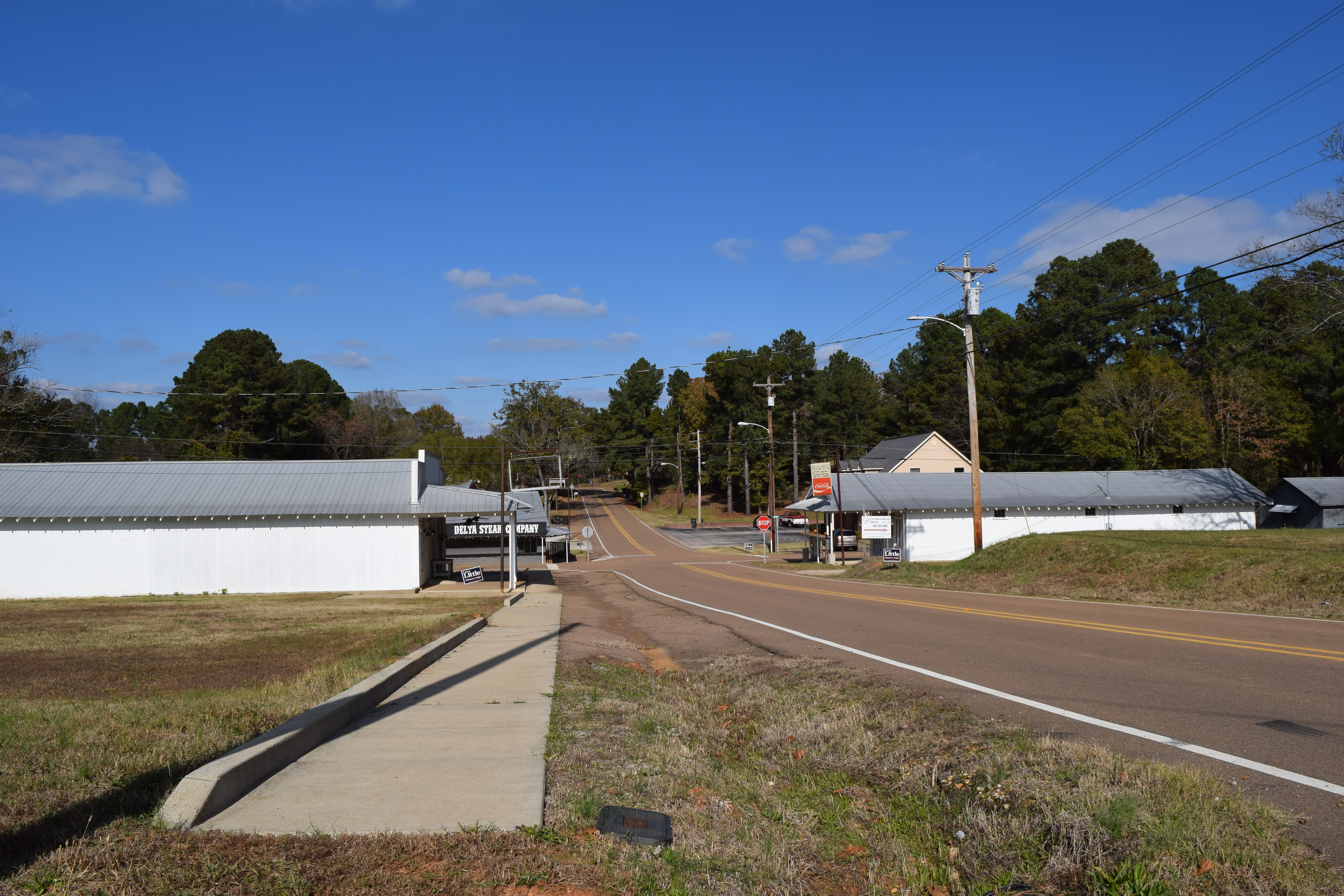 Looking north along Lafayette County Road 201 into downtown Abbeville, Mississippi from the town hall